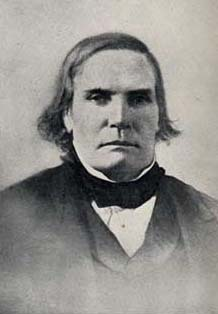 Portrait of Senator Jesse Burgess